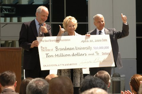 Mayor Larry Agran, Irvine, Chancellor Brahm, Joyce Brandman and President Doti of Chapman.